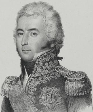 General count Etienne-Marie-Antoine Champion de Nansouty.